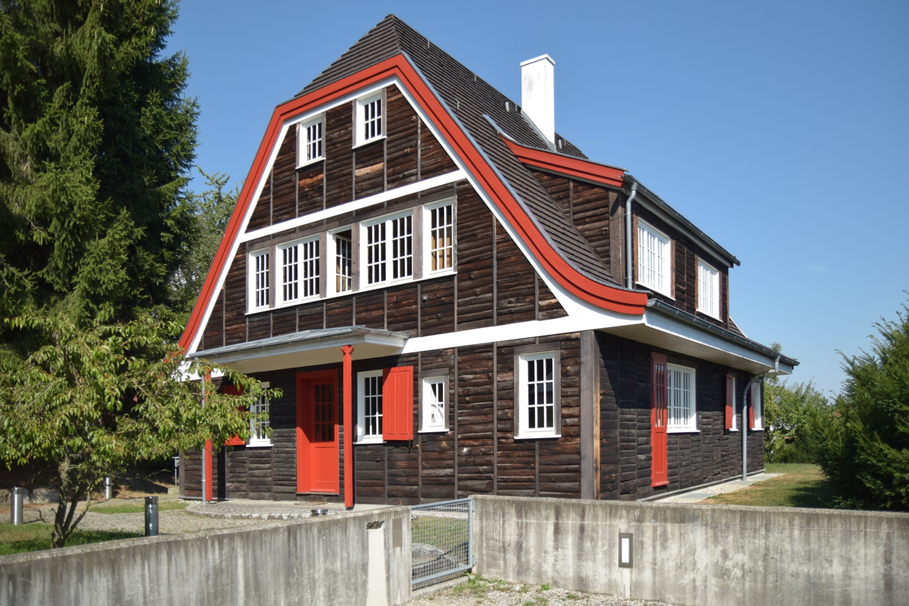 This is a photograph of an architectural monument.